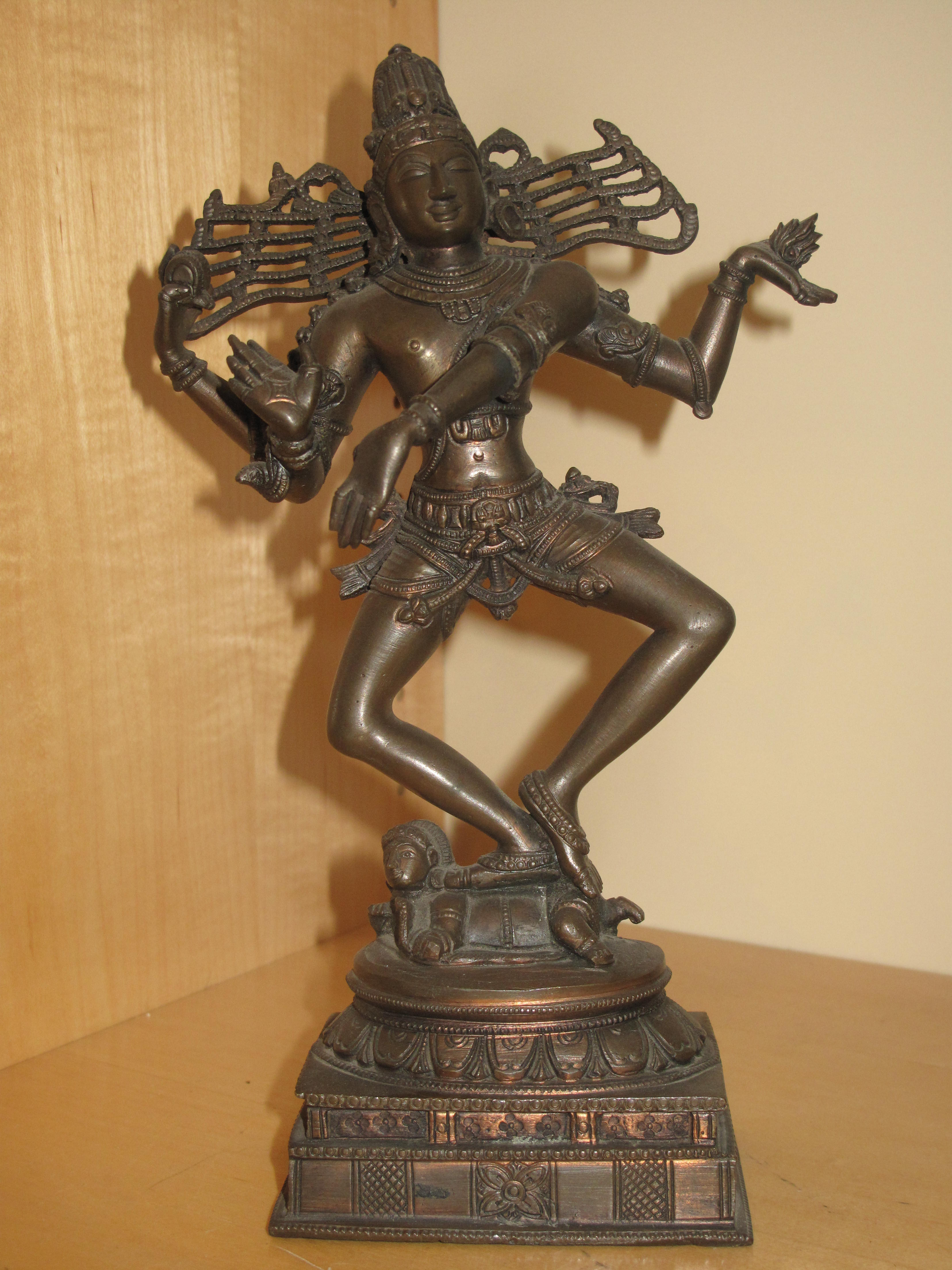 The Hindu god Shiva dancing Tandava. Sculpture in copper from India. Length : 15.7 cm ; width : 7 cm ; height : 27 cm